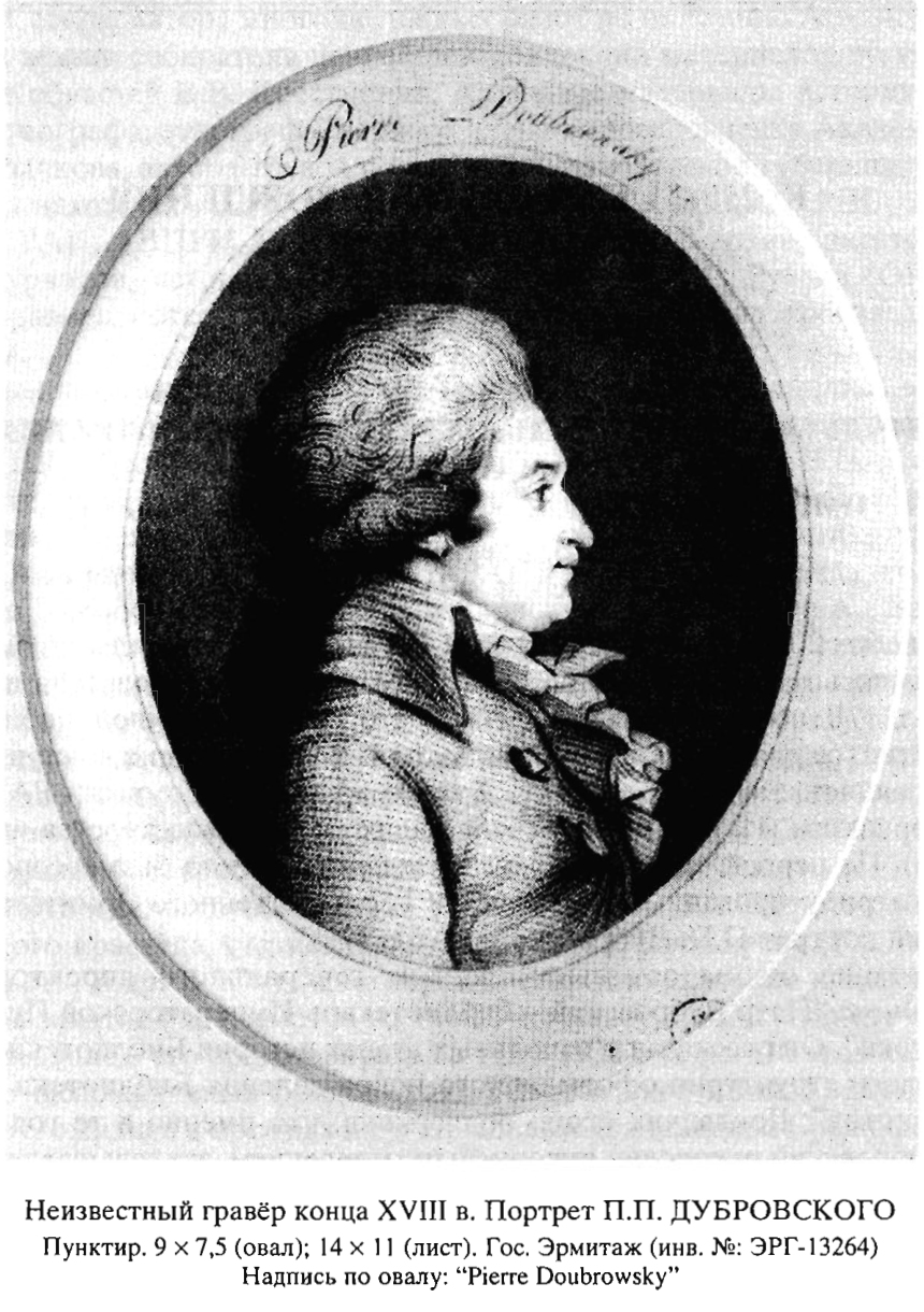 CHRONICLE OF THE SCIENTIFIC MEETING "PETER DUBROVSKY - Founder and First Keeper of 'The Department of Manuscripts' of the Imperial Public Library" (RNB, December 7, 2004), pp. 271-276 Picture on p. 272 with caption Unknown engraver - end of XVIII century. Portrait of P.P. Dubrovsky, Dotted line. 9x7.5 (oval); 14×11 (sheet). State Hermitage (inv. No. ERG-13264). The inscription on the oval: “Pierre Doubrowsky”